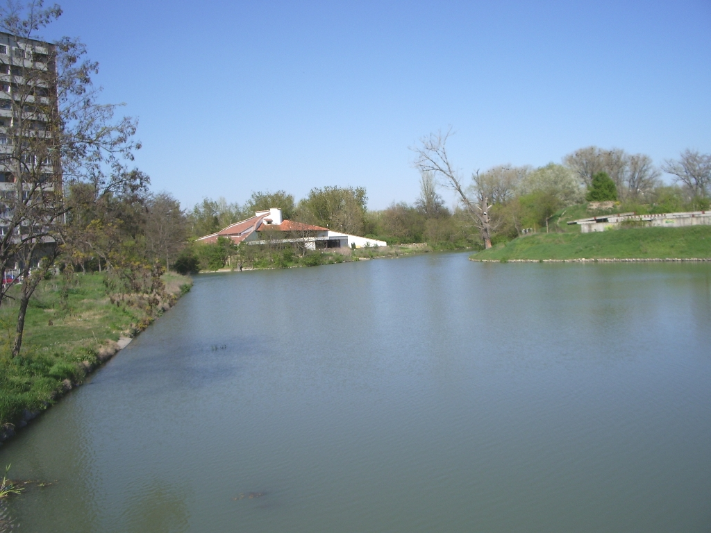 Tundzha River in Yambol, Bulgaria - near the City Stadium and the City Park